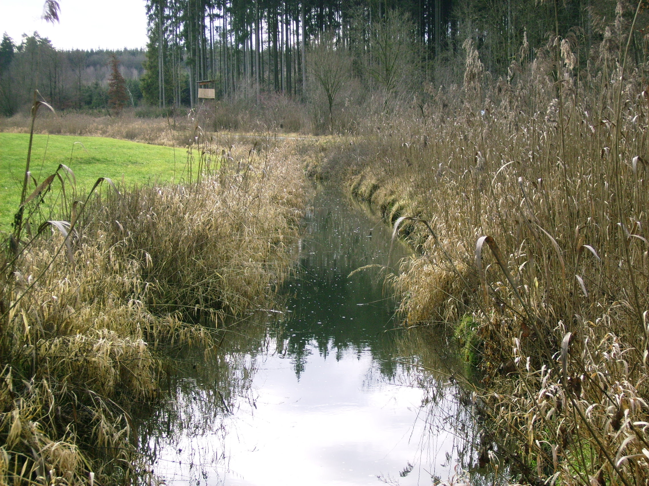 Description: The river Weihung in the near of Beuren (Part of Schnürpflingen)